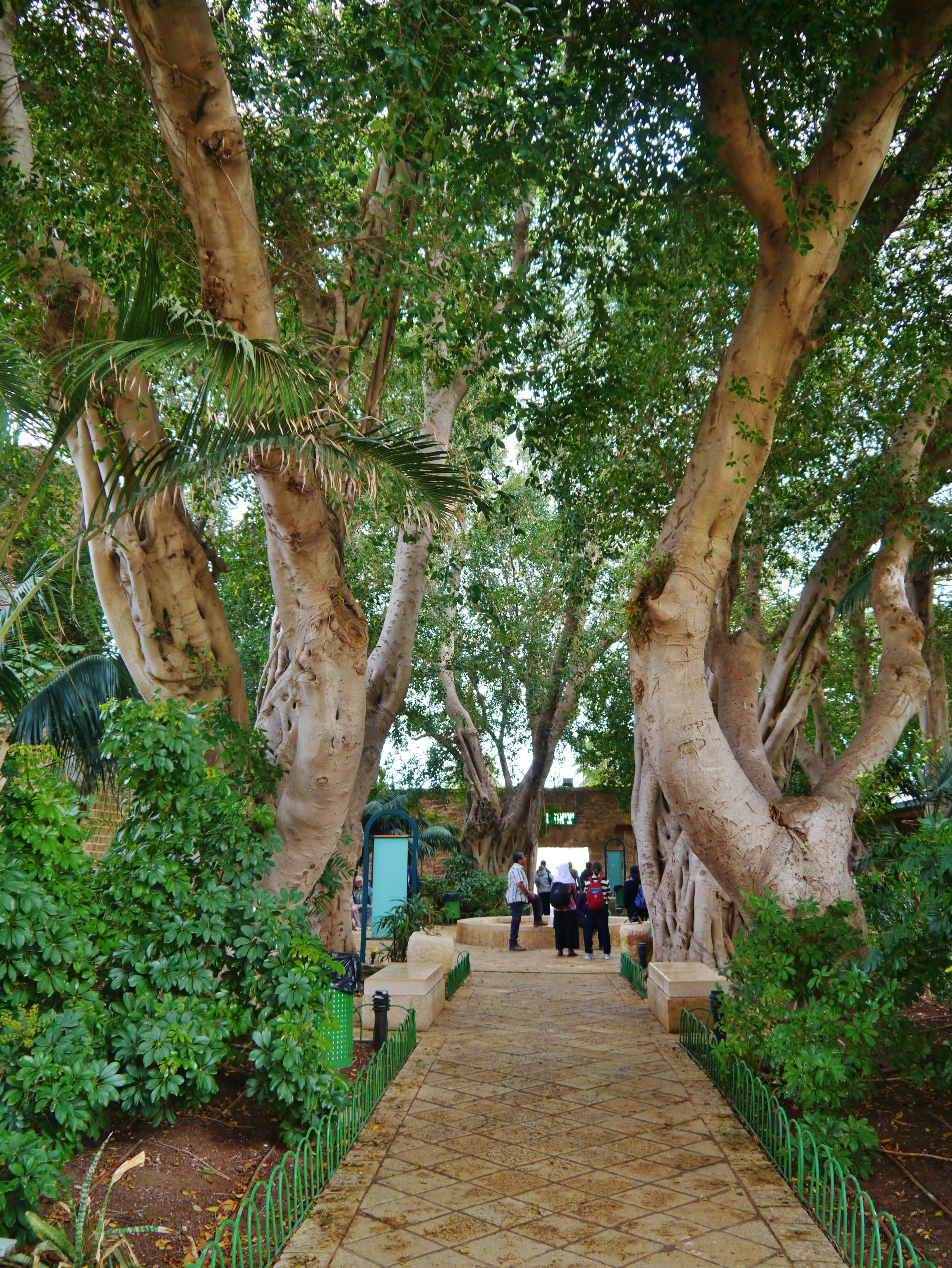 the Grove at the Courtyard of the Crusader Castle, Acre, Israel